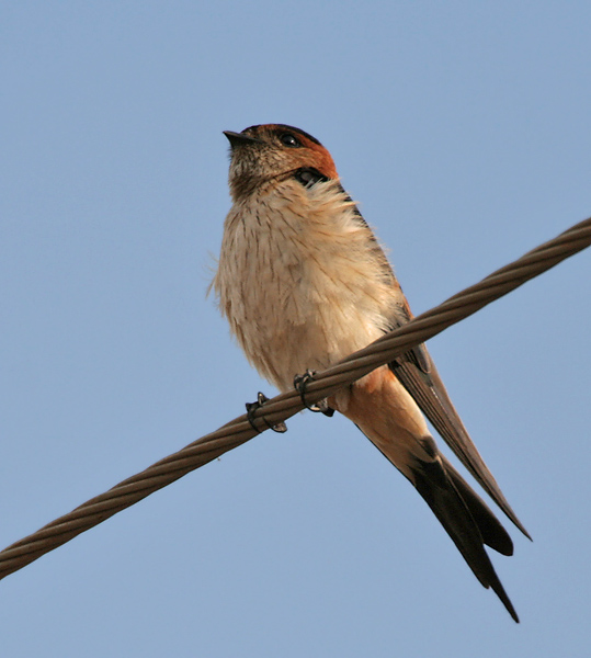 Red-rumped Swallow Cecropis daurica (syn. Hirundo daurica) at Ananthagiri Hills, in Rangareddy district of Andhra Pradesh, India.